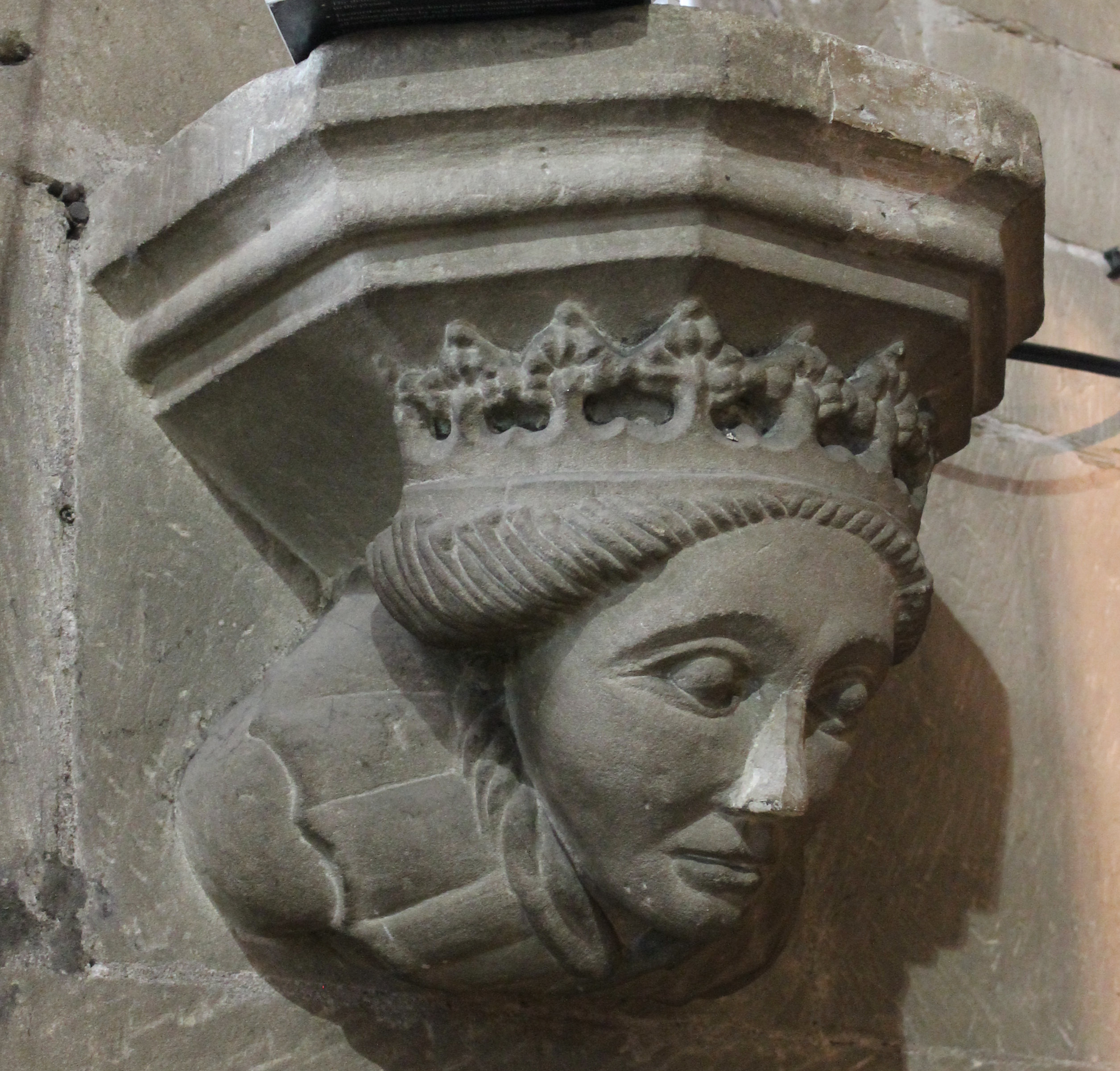 Possibly Lady Margaret Beaufort, Henry Tudor's mother. St Giles Church, Wrexham, Wales.